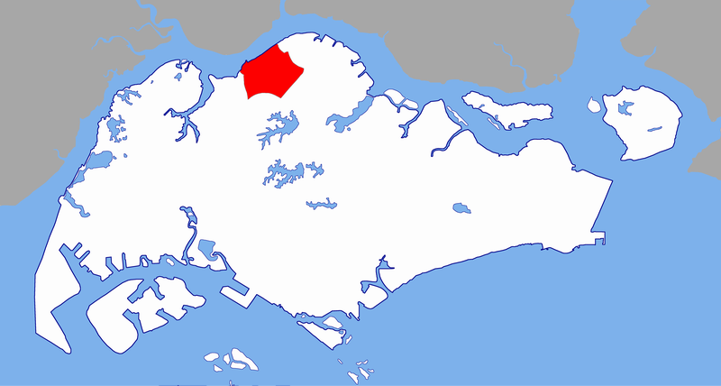 Woodlands locator map